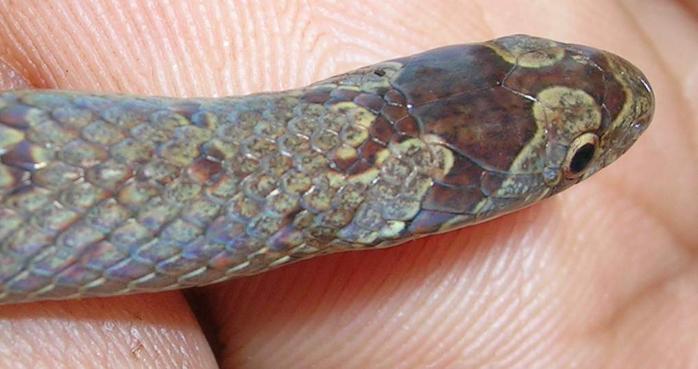 Western Kukri, Oligodon affinis Photo by L. Shyamal, Wynaad, 2006